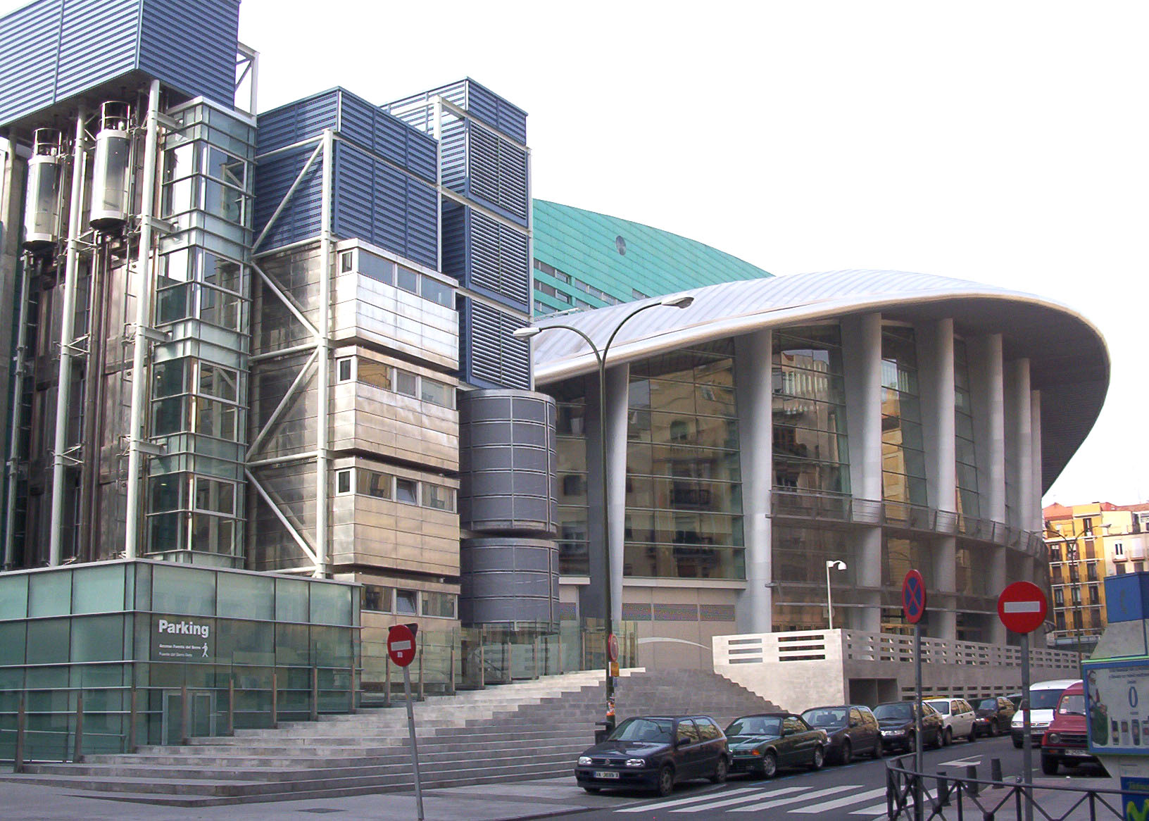 East façade (Calle de la Fuente del Berro, street) of the Palacio de Deportes de la Comunidad de Madrid (Madrid, Spain, built: 2002–2005). Indoor sports building. Architects: Enrique Hermoso Lera and Paloma Huidobro de la Torre.